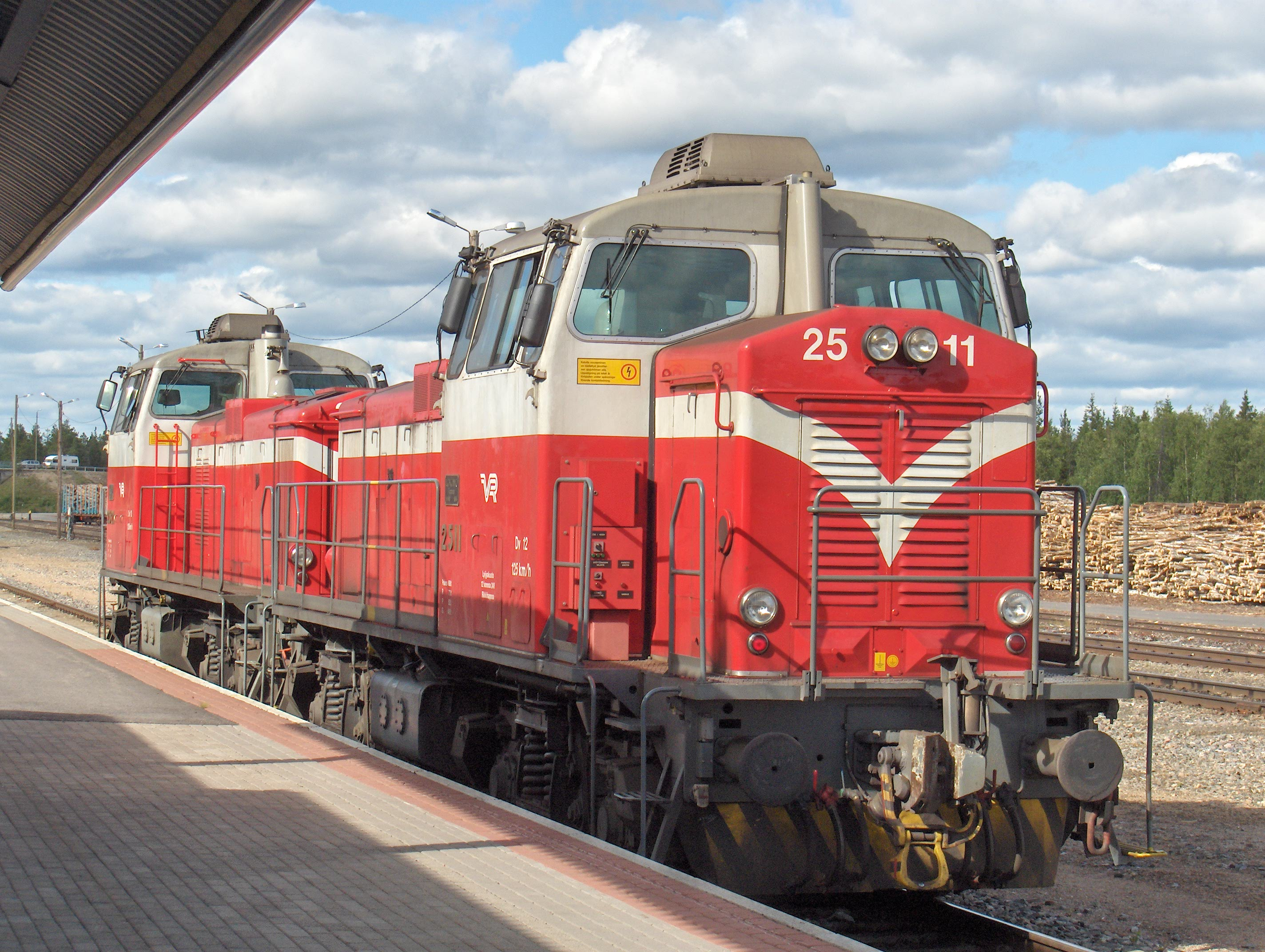 Two VR diesel locomotives (type Dv12) at Kolari railway station, Finland, on 20 July 2007.